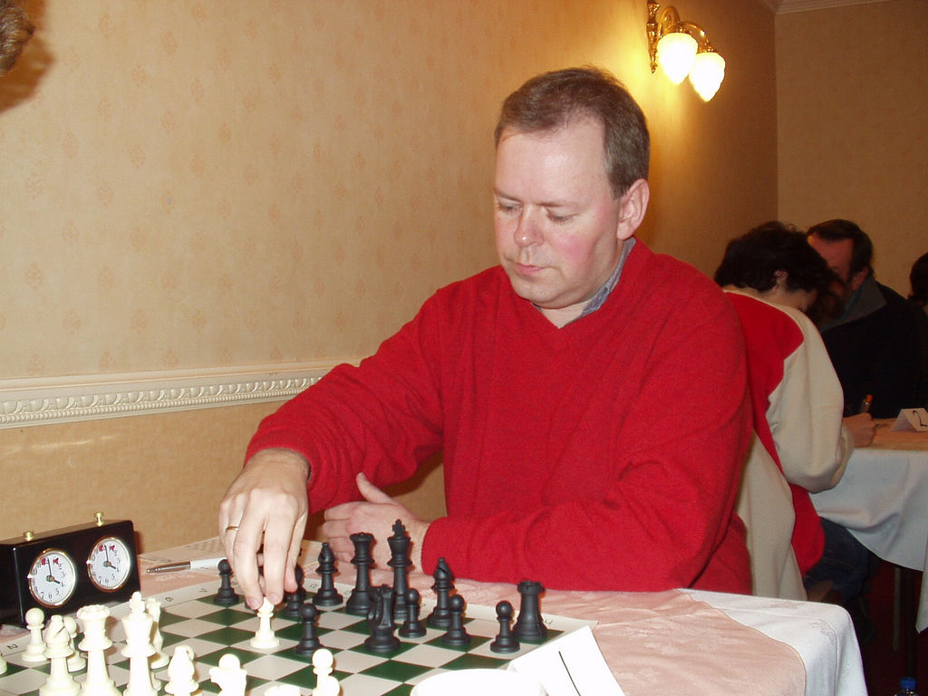 GM Jonny Hector (Sweden)